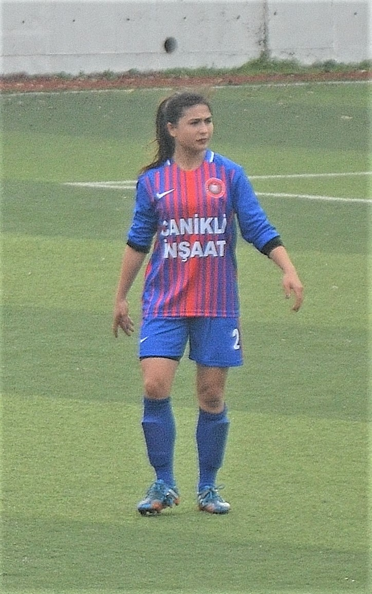 Safa Merve Nalçacı for Fatih Vatan Spor in the away match against Ataşehir Belediyespor in the 2017-18 season.